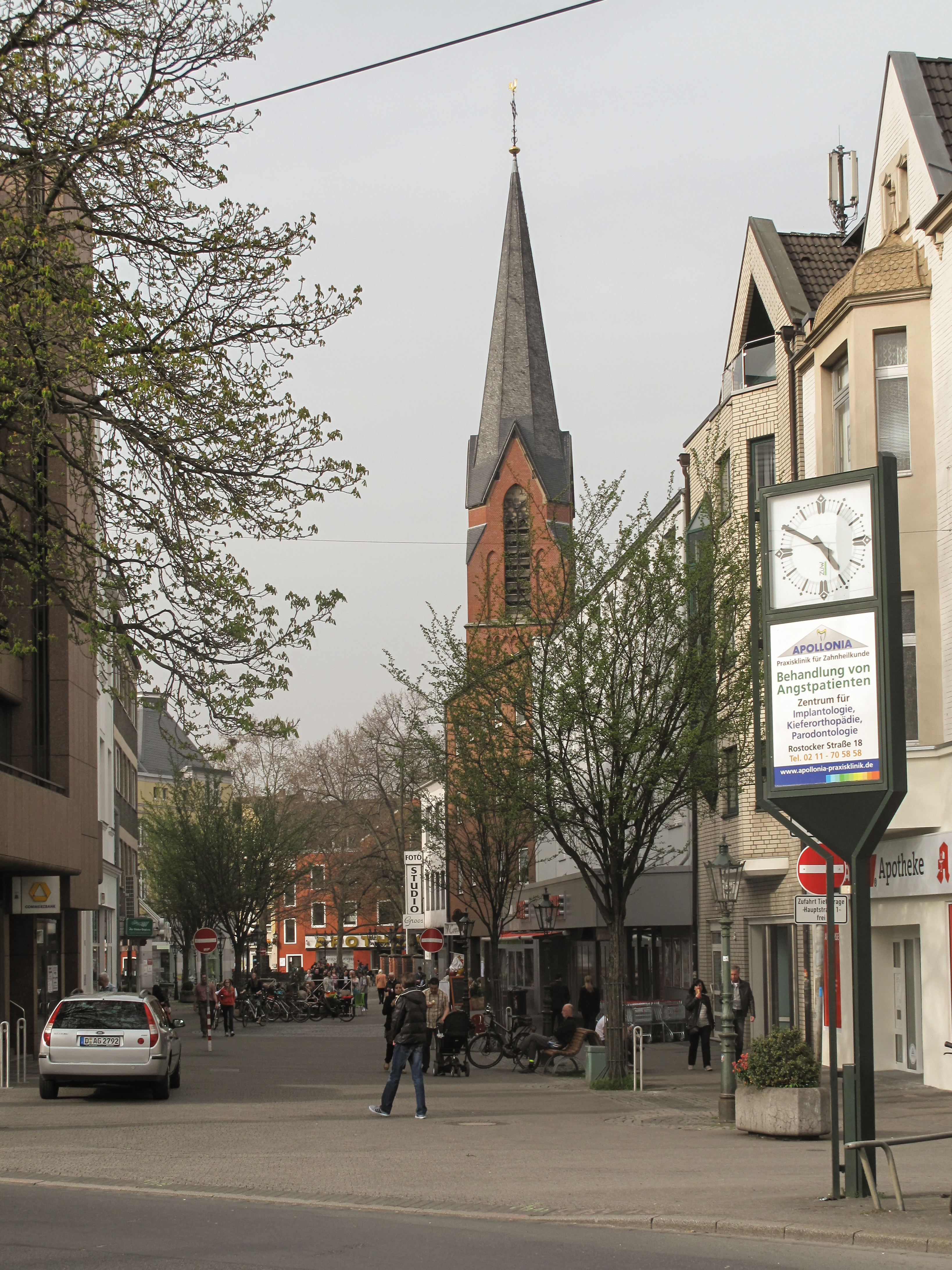 Benrath, church: die Sankt Cäciliakirche